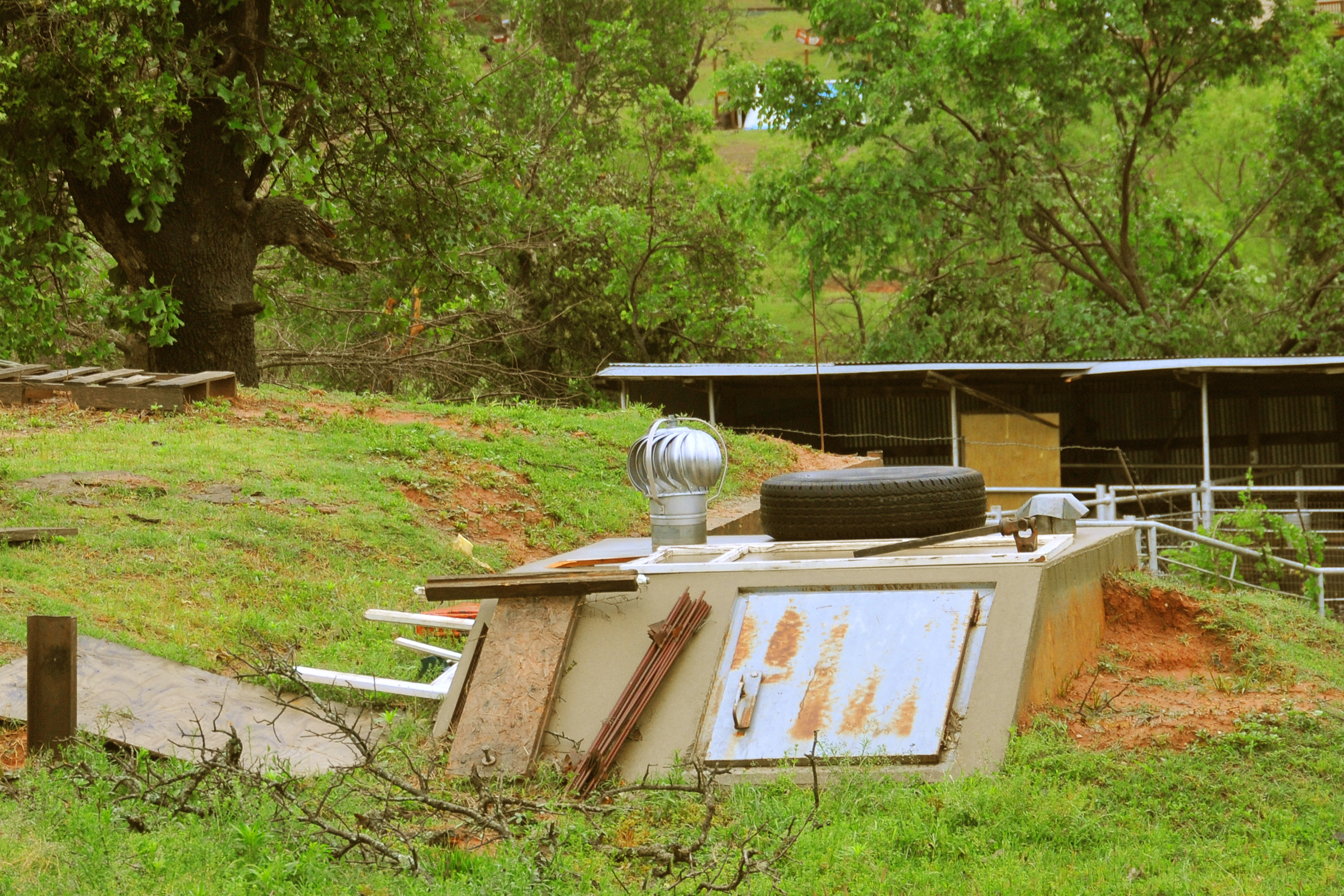 Oklahoma City, OK, May 14, 2010 -- A large number of storm shelters have been installed next to homes since the Moore, OK, tornado of 1999. State officials attribute the low number of deaths - two - from the May 10th 22 confirmed tornadoes to this proactive measure undertaken by residents throughout the state. FEMA Photo by Win Henderson